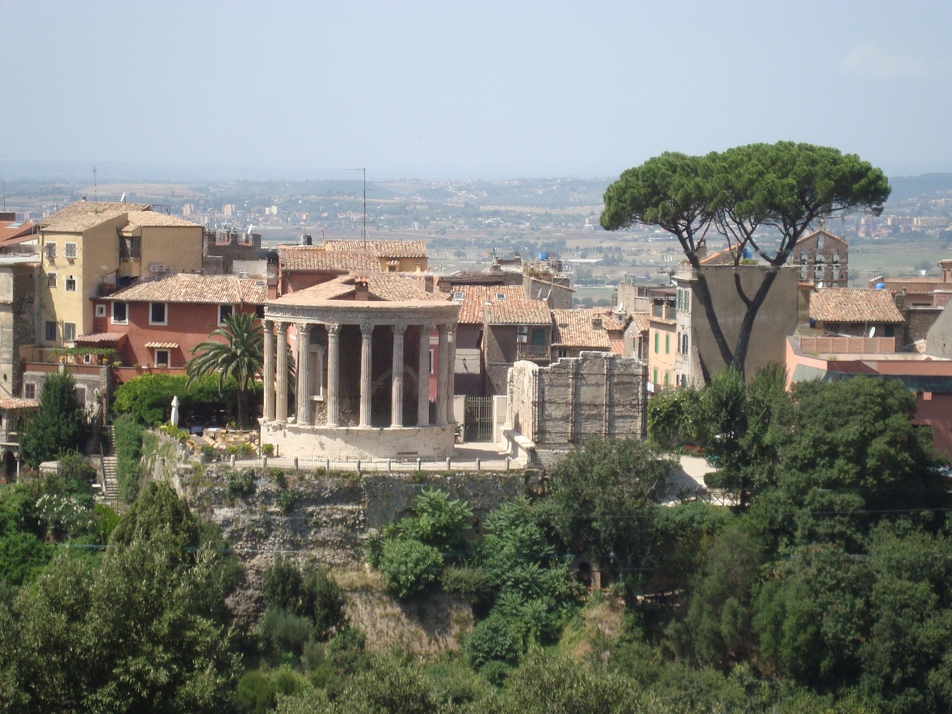 General view of the temple of Vesta (left) and the temple of Sibyl (right) in Tivoli - Retouched to eliminates cables